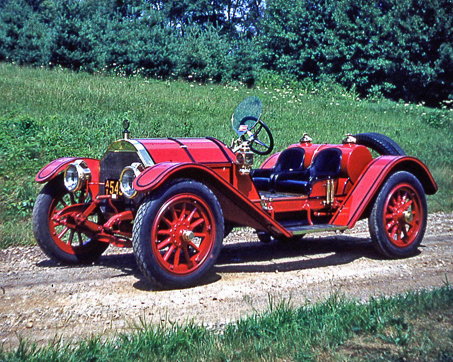 Denison University campus in Granville, Ohio at a 1952 car show. Taken with a Stereo Realist on Kodachrome